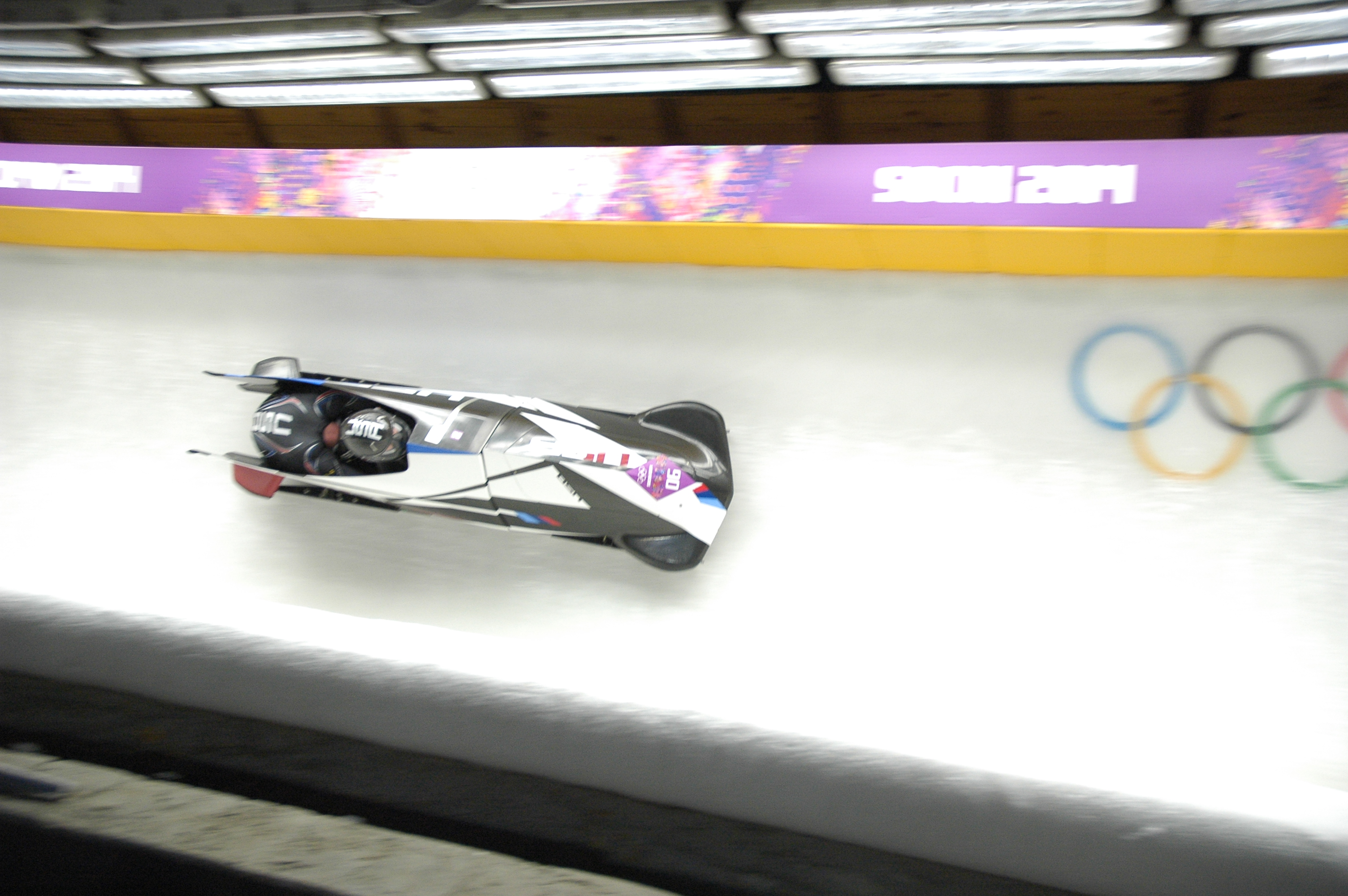 Two-man bobsleigh, 2014 Winter Olympics, United States(06)